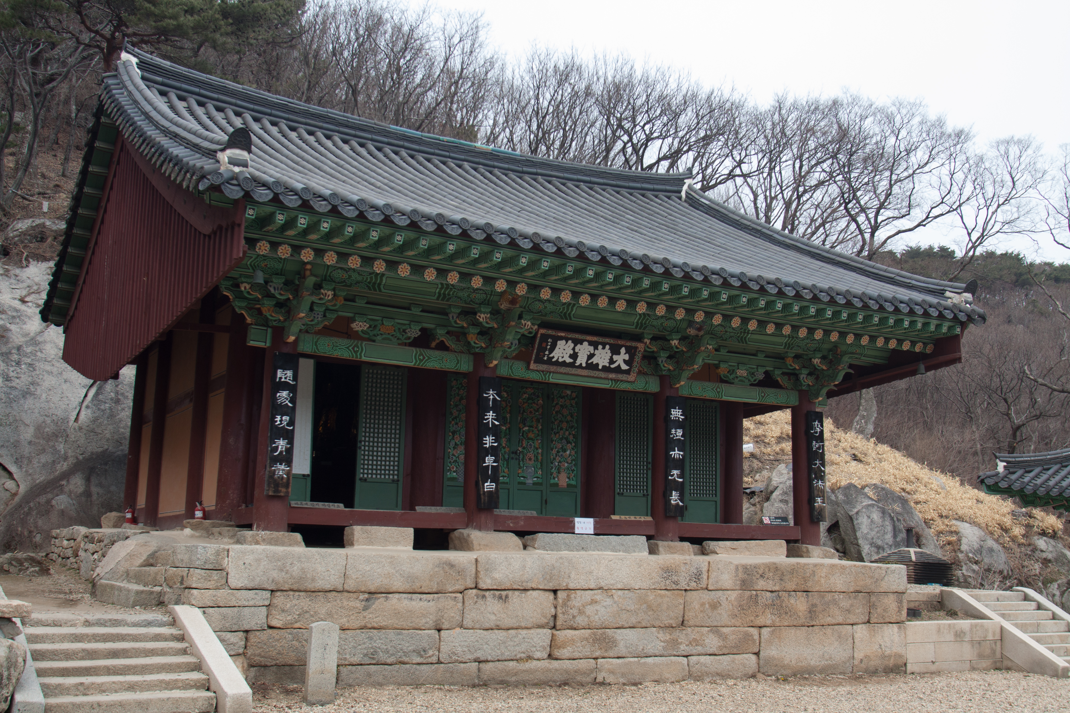 The buddhist building at Jeongsusa temple in Ganghwa, Korea